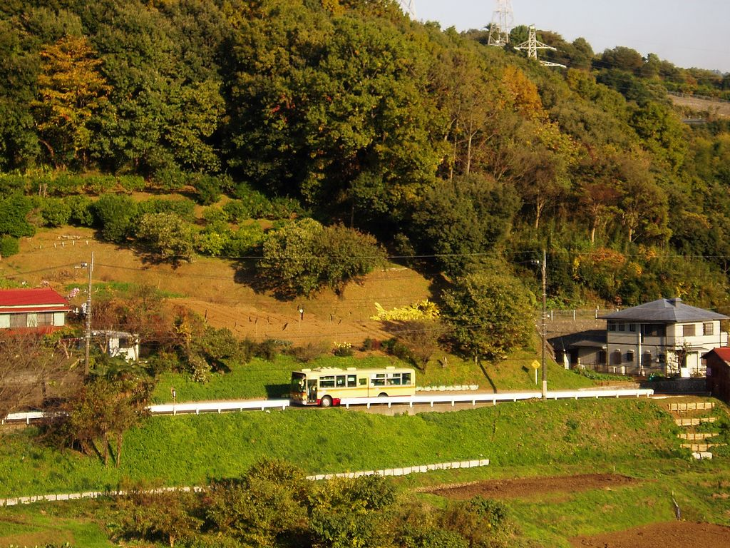 Kanagawa Chuo Kotsu,Hadano-60